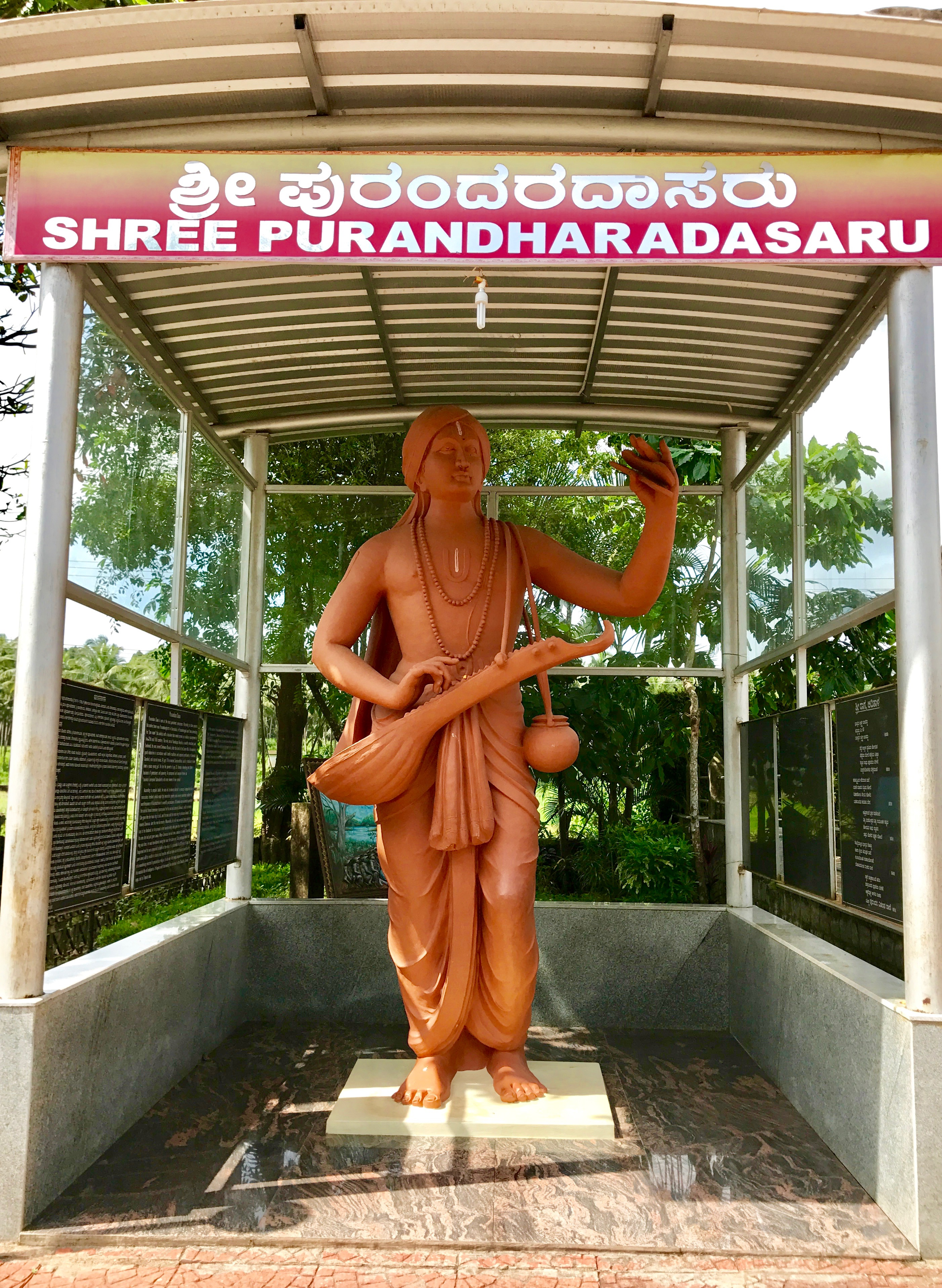 Purandara Dasa was a 15th-century Vaishnavism Hindu devotee, influenced by Madhva tradition of Krishna bhakti. He was a composer, singer and one of the chief founding-proponents of the South Indian classical music (Carnatic Music). To some, he was the avatara os Vedic musical sage Narada.